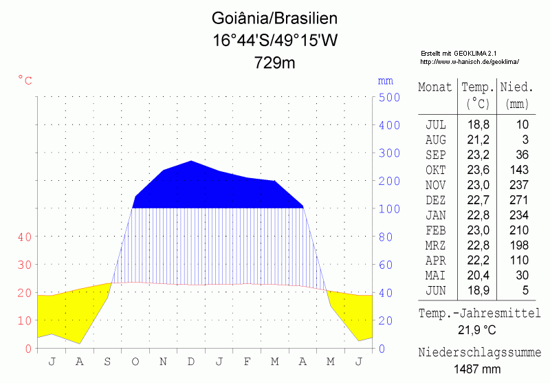 Climate chart in the format by Walther and Lieth, metric, °Celsisus and millimeters, made with Geoklima 2.1